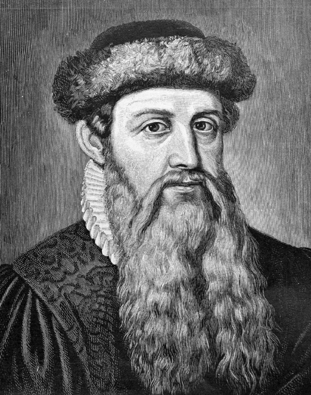 Johannes Gensfleisch zur Laden zum Gutenberg made after his death.